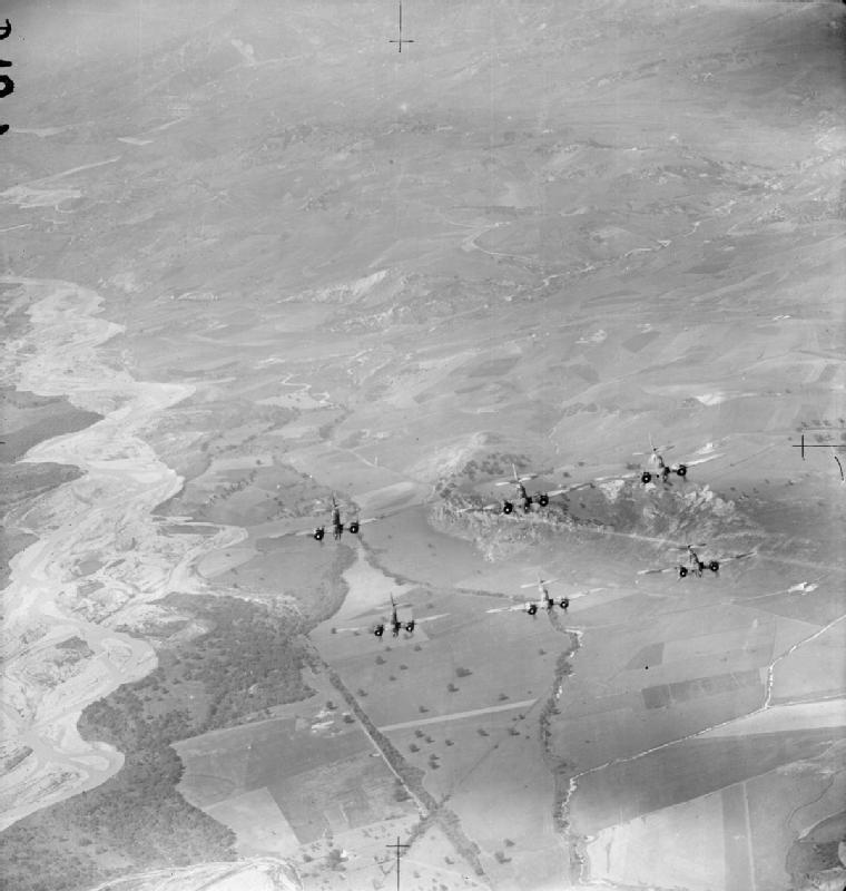 Royal Air Force- Italy, the Balkans and South-east Europe, 1942-1945. Six Martin Baltimores of the Desert Air Force, flying in formation on their way to attack German gun positions in the Liri Valley. The River Liri can be seen at left.